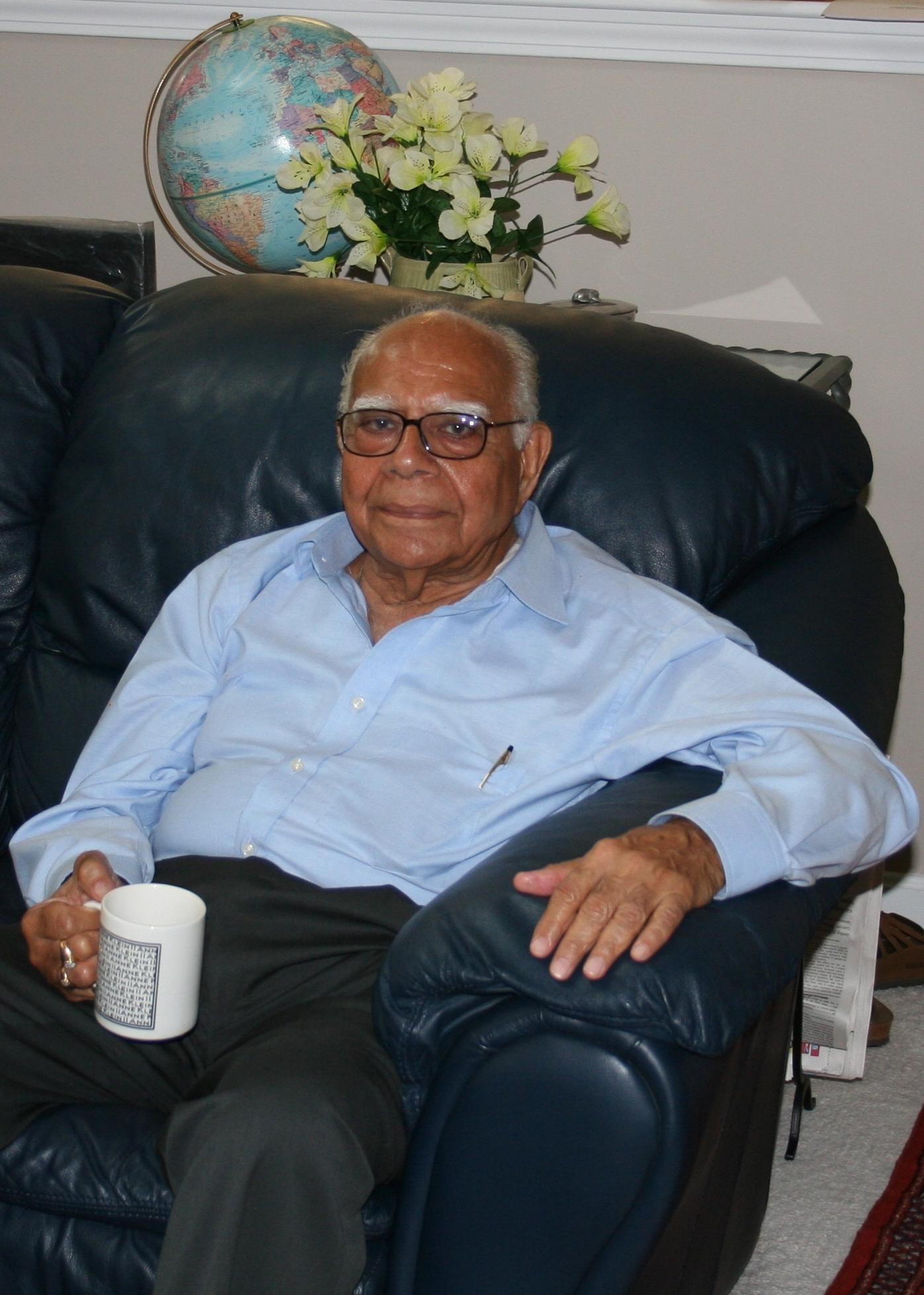 Ram Jethmalani (born September 10, 1923) is an Indian politician and a famous and controversial criminal lawyer. He was born at Shikharpur in Sind (now in Pakistan), in 1923. I took this photograph in Boston MA when he was visit a Sindhi friend.